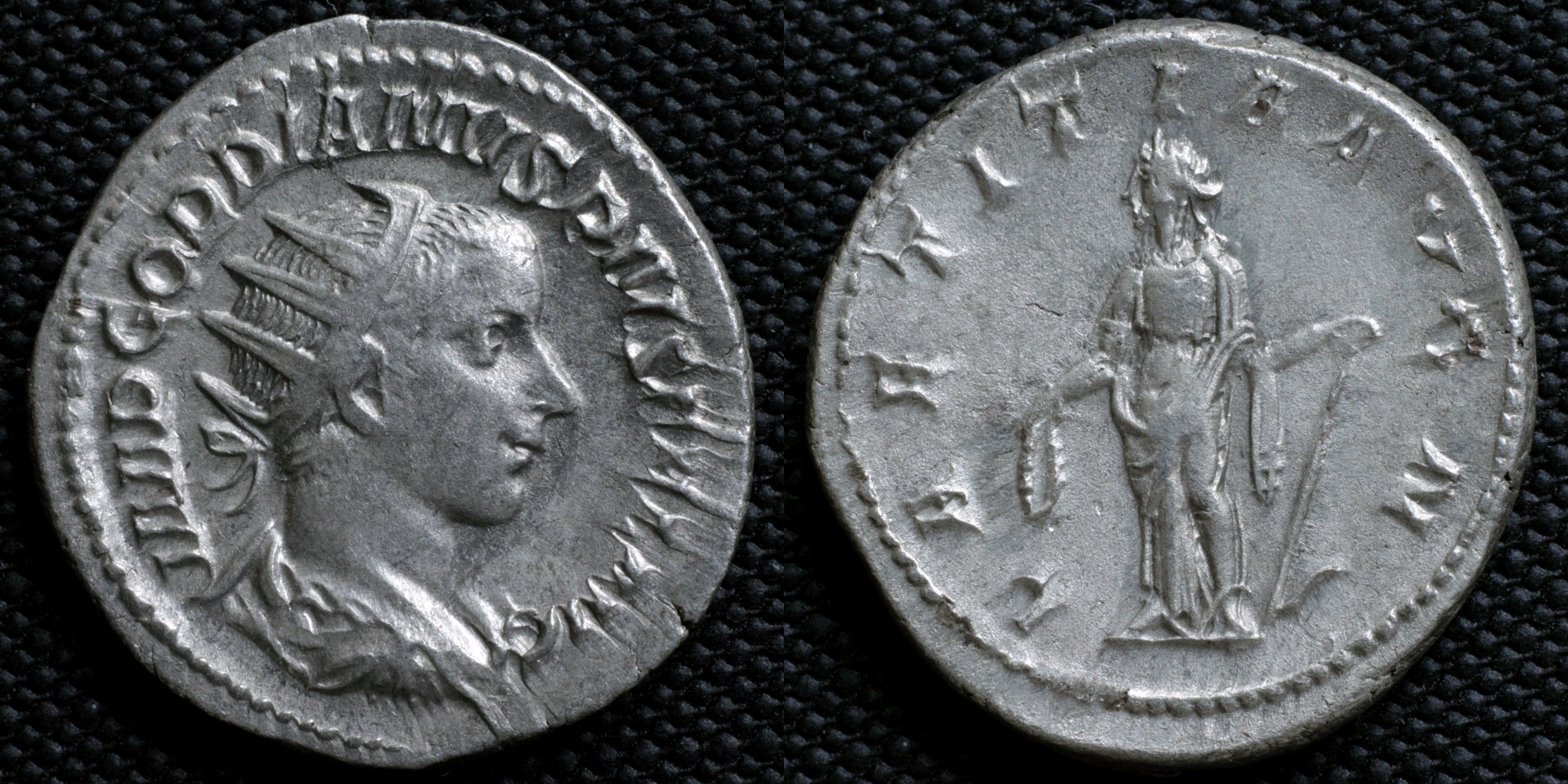 Gordian III AR antoninianus struck in Rome late 240 - July 243 AD weight: 5,39 g, diameter: 22-21,5 mm IMP GORDIANVS PIVS FEL AVG Radiate, draped and cuirassed bust right from behind LAETITIA AVG N Laetitia standing half left, holding wreath and anchor 8th - 11th emission, reference: SRCV III 8617, RIC IV 86, RSC IV 121